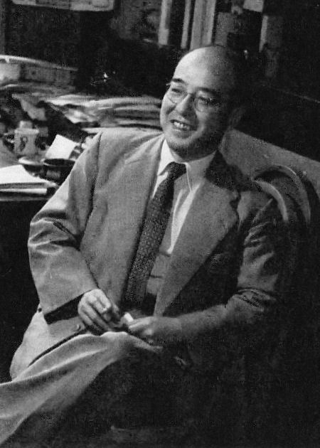 Takaaki Miyaki